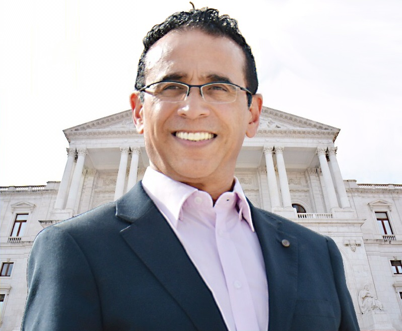 Jose Pereira Coutinho at Sao Bento Palace in Lisbon, Portugal, 2015